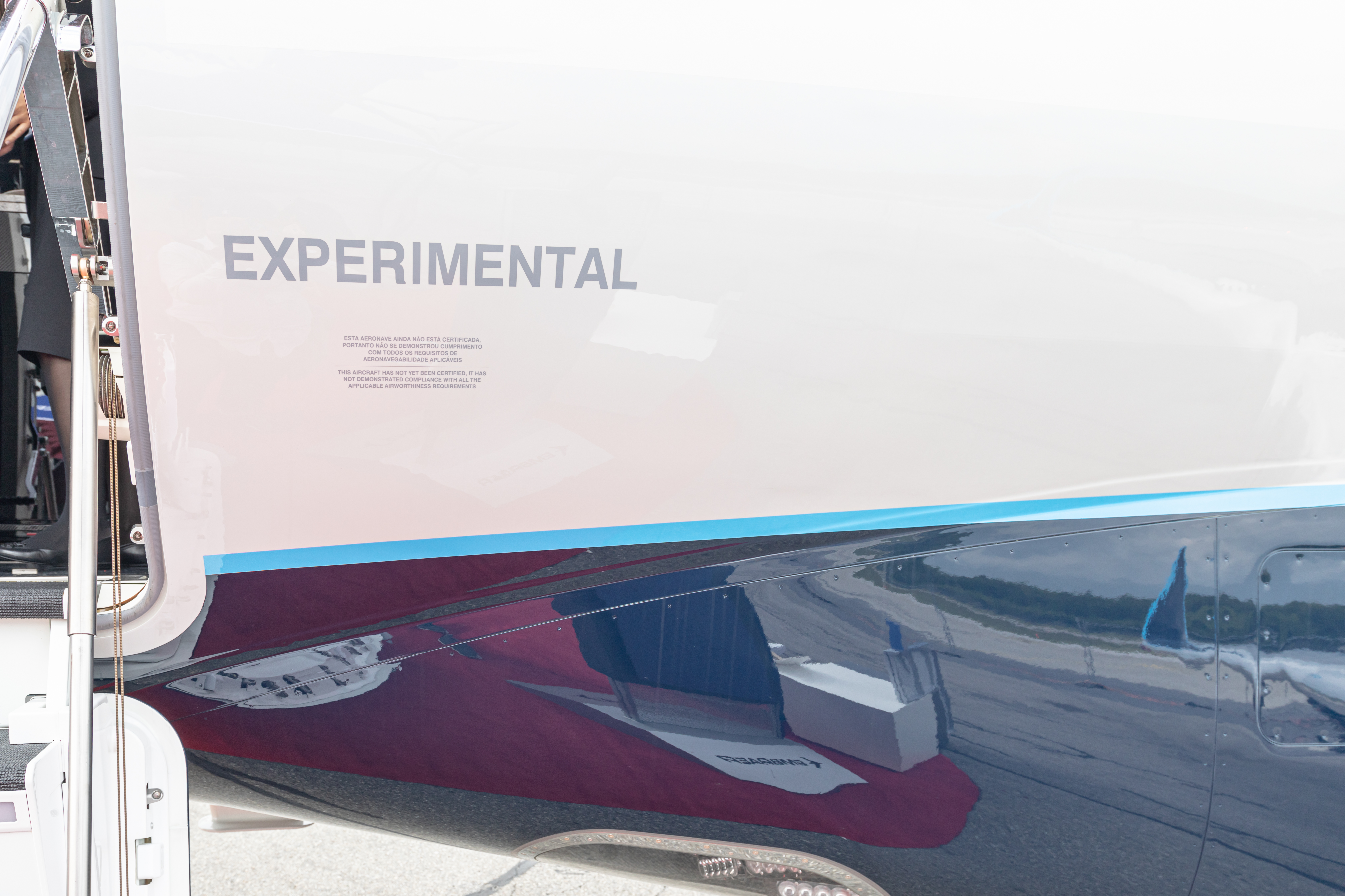 EBACE 2019, Palexpo, Switzerland